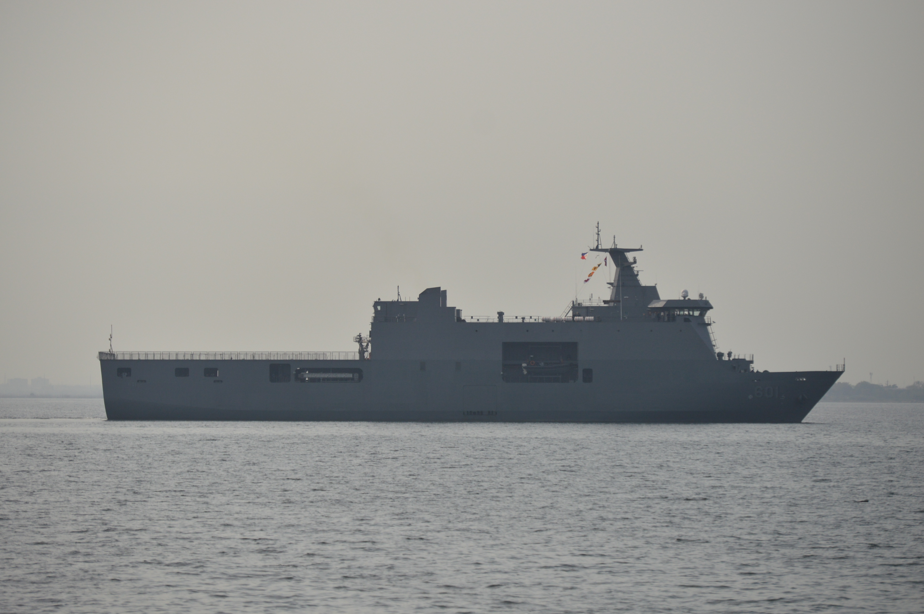 The Tarlac-class landing platform dock BRP Tarlac anchored off Sangley Point in Cavite City, Cavite. Photo was taken aboard M/V Sun Cruiser II on the way to Corregidor Island.